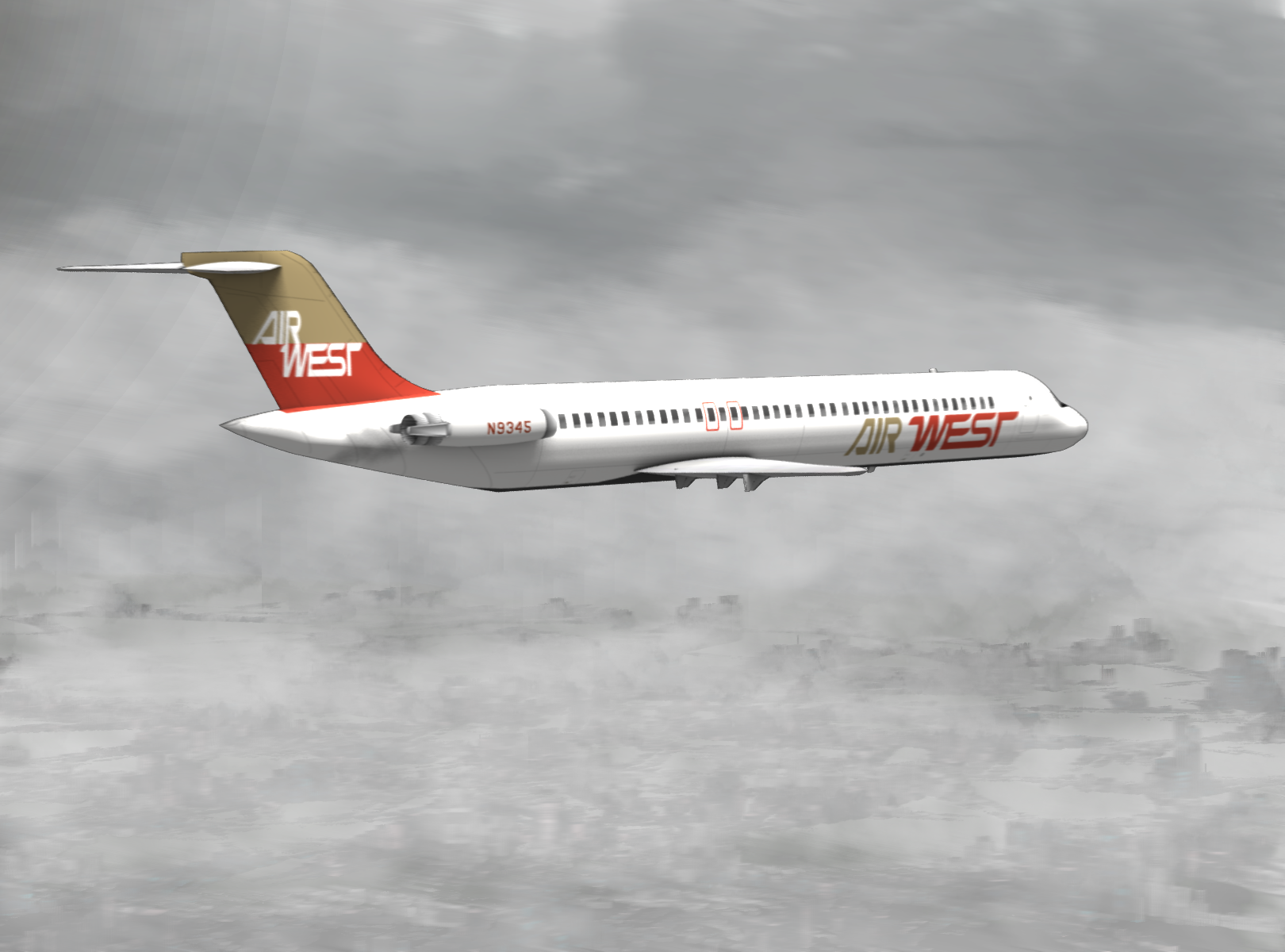 Hughes Airwest Flight 706